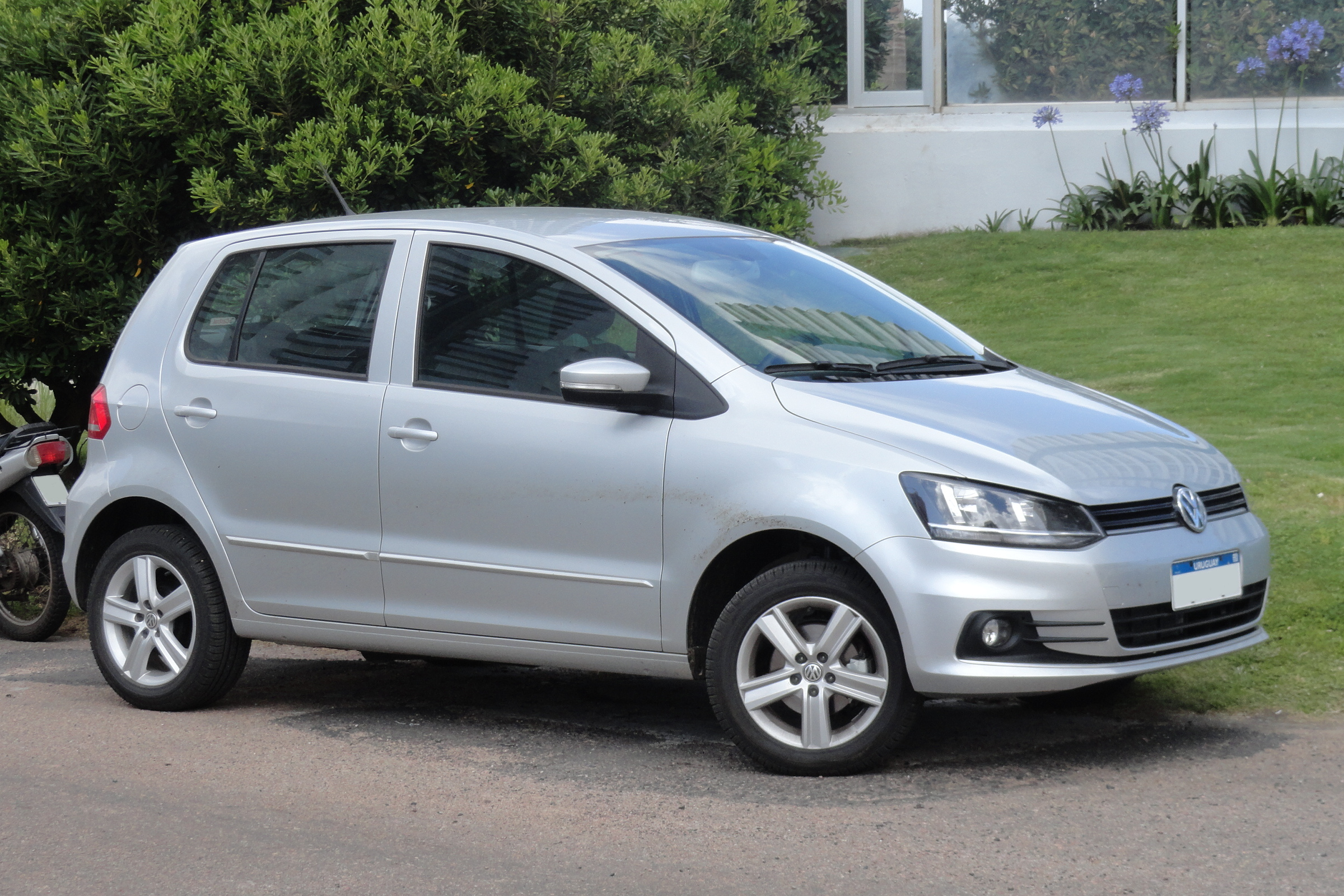 Volkswagen Fox 2015 (second restyle) photographed in Punta del Este